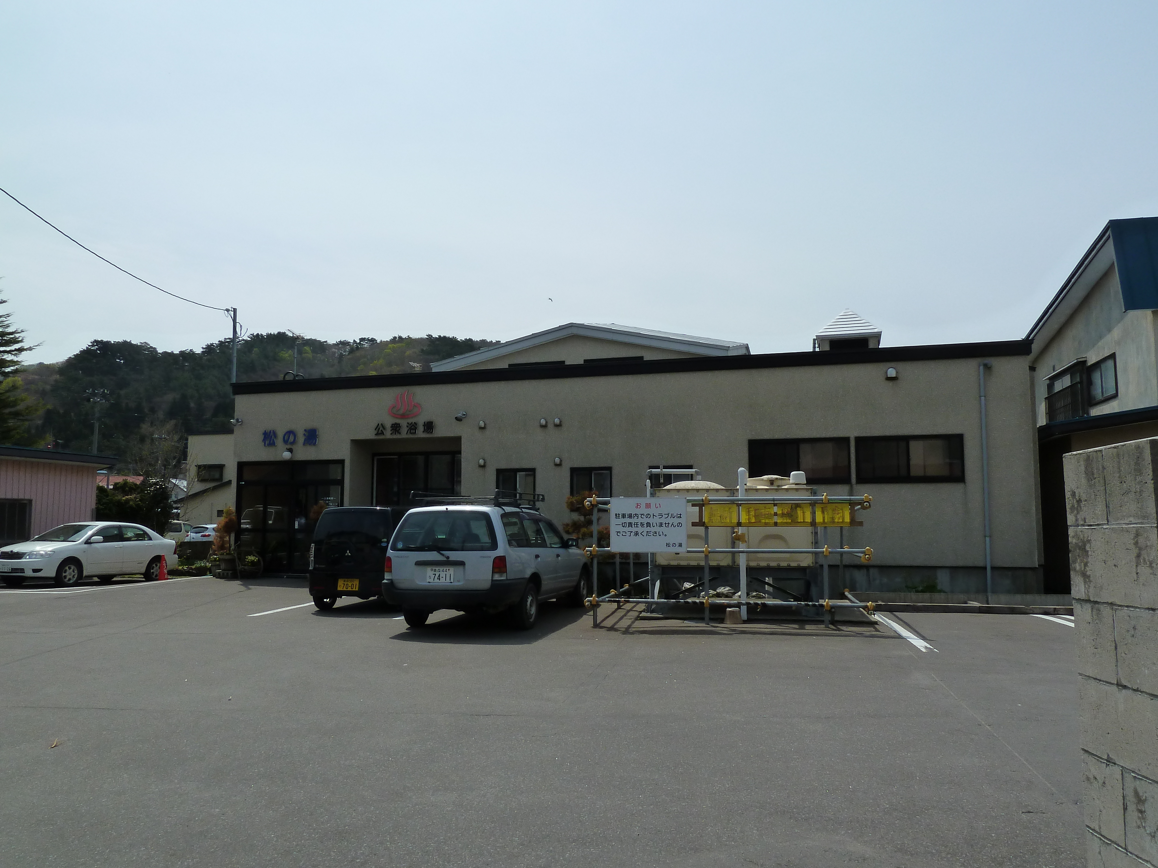 浅虫温泉街にある共同浴場の松の湯